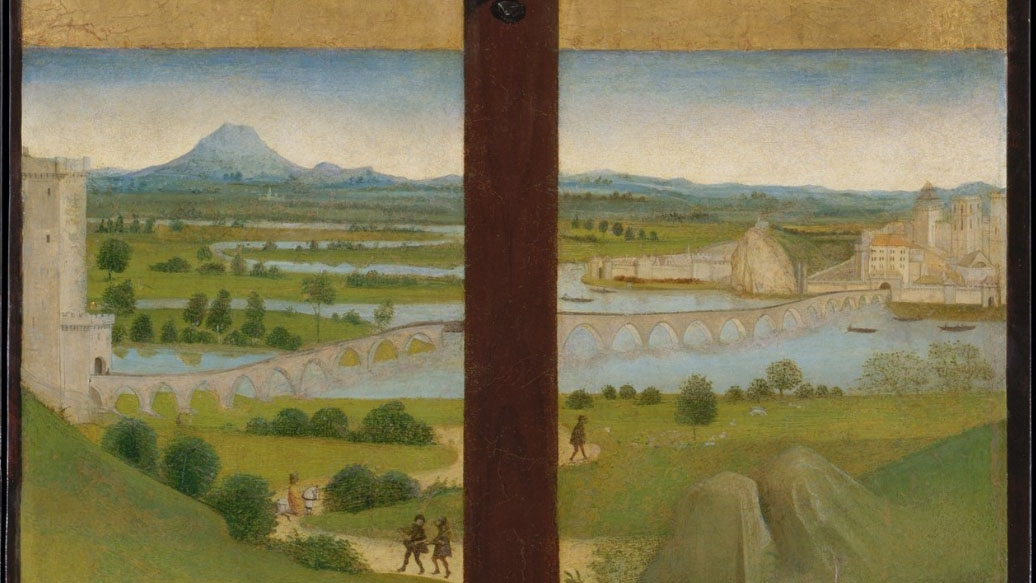 A detail from the central panel showing the Pont Saint-Bénezet